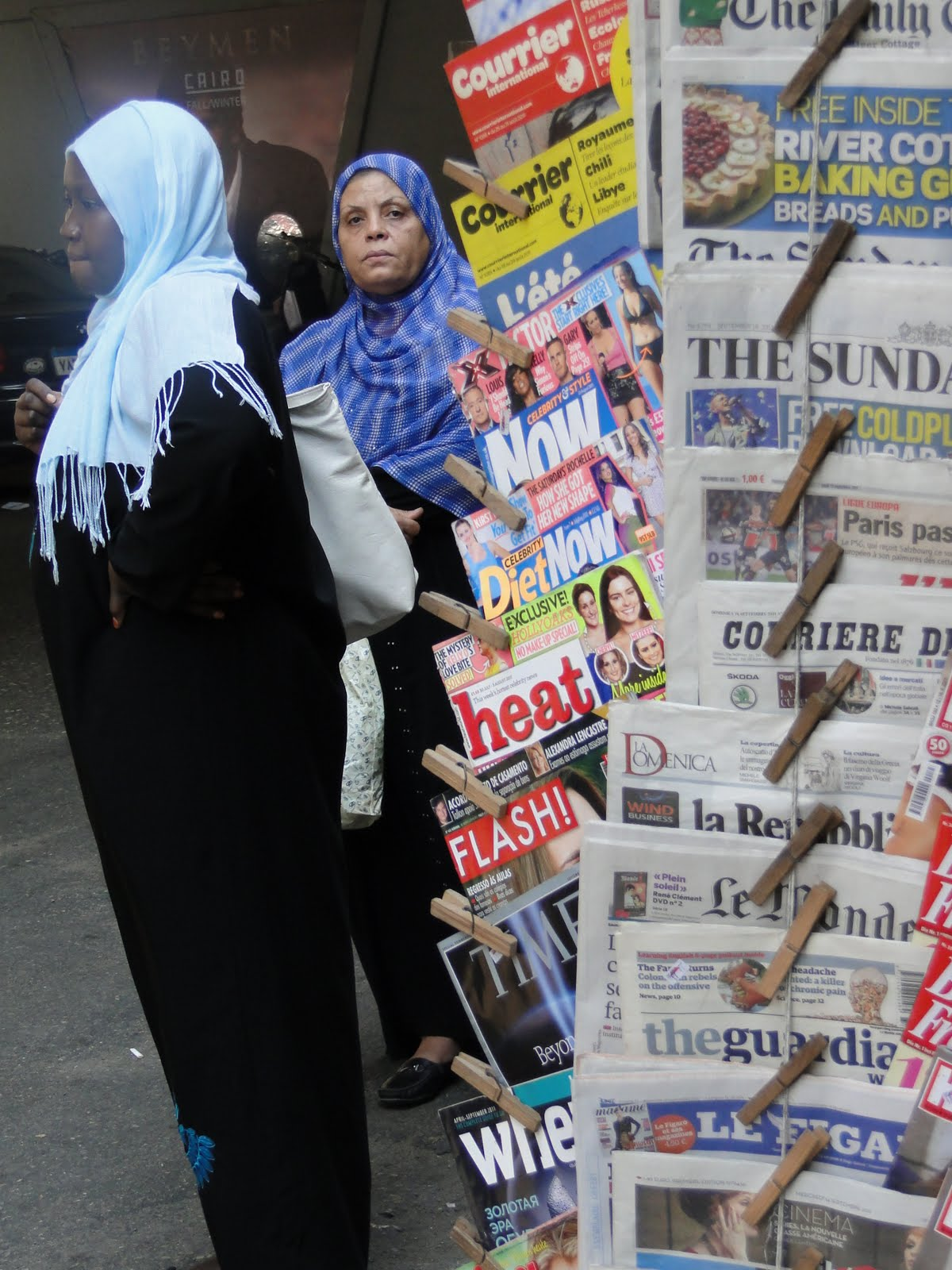 Cairo - Zamalek - Newspapers